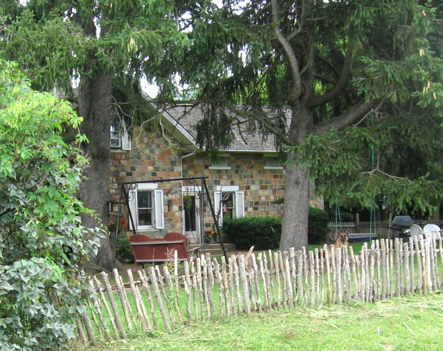 The William L. Lords House, on the National Register of Historic Places. A view from the south, from County Road 750 N.